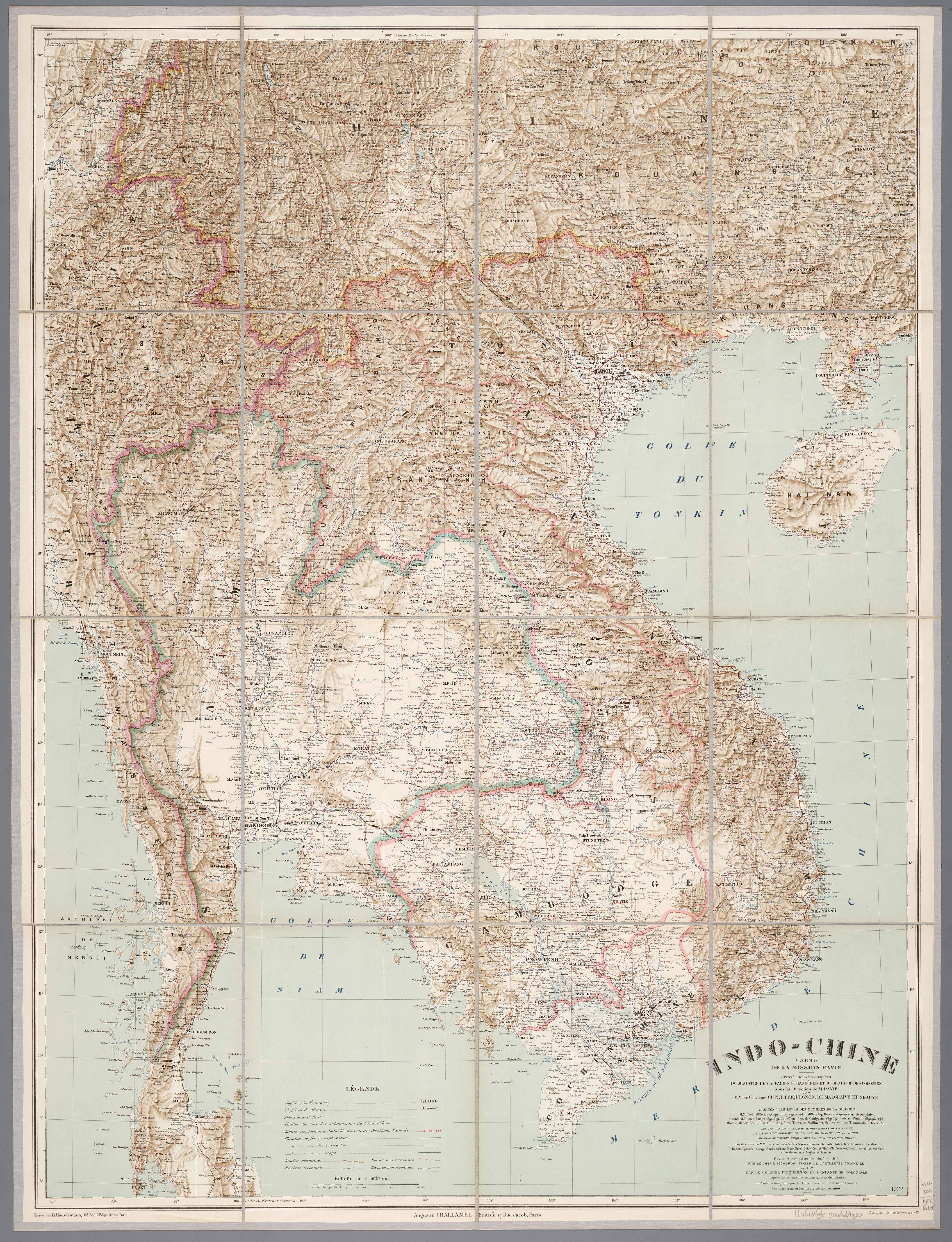 Indo-Chine : carte de la mission Pavie / dressée sous les auspices du Ministre des Affaires Étrangères et du Ministre de Colonies sous la dir. de M(onsieur) Pavie par les capitaines Cupet... (et al.) ; gravé par R. Hausermann 1:2.000.000 Publisher: Paris : Augustin Challamel Original size: 103 x 76 cm Co-authors: Pavie, Auguste; Cupet, Pierre Paul; Hausermann, R. Original version 1880-1895, reviewed and updated 1909, 1913 and 1921 Digitized in 2009